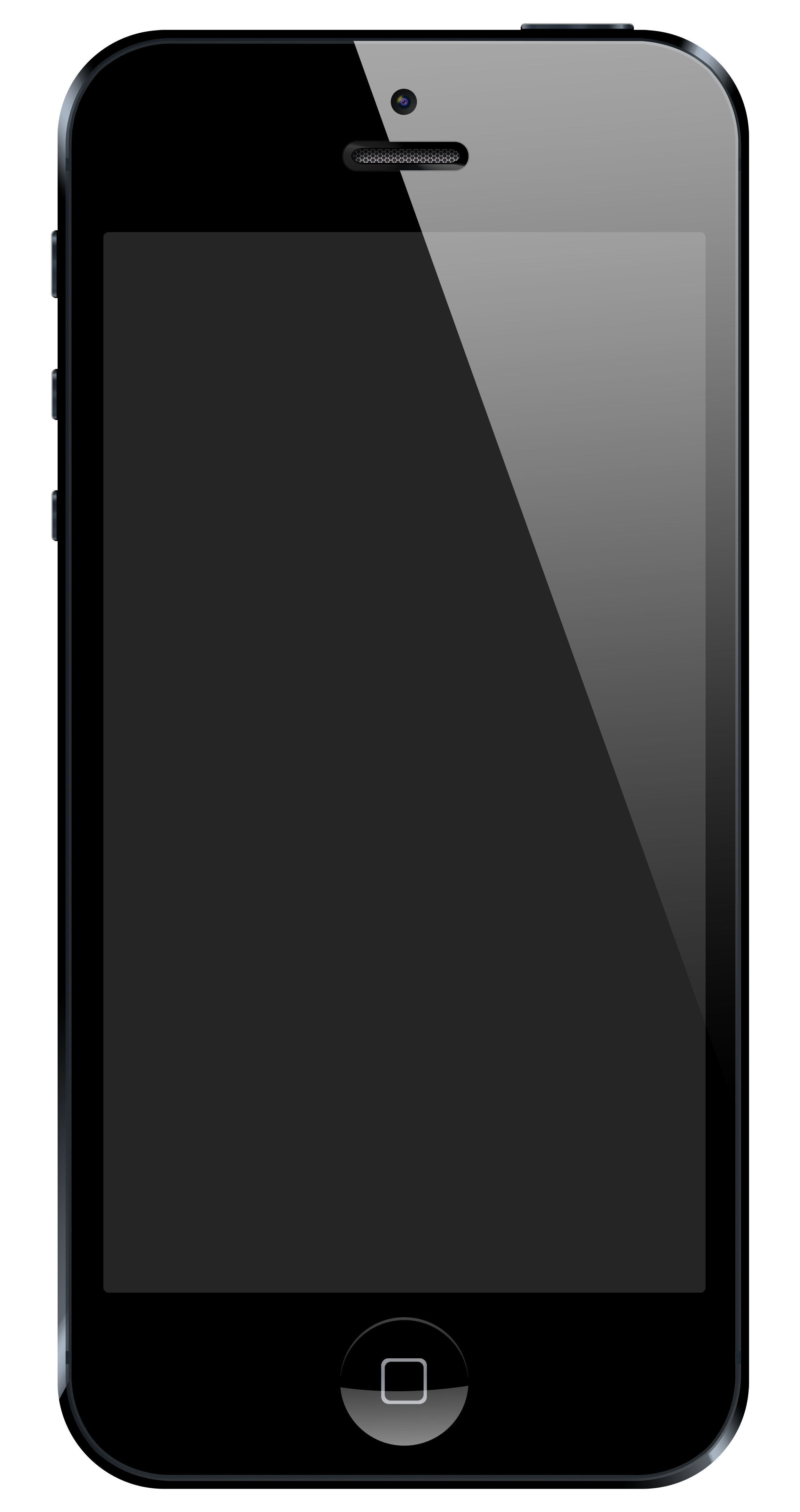 The Apple iPhone 5